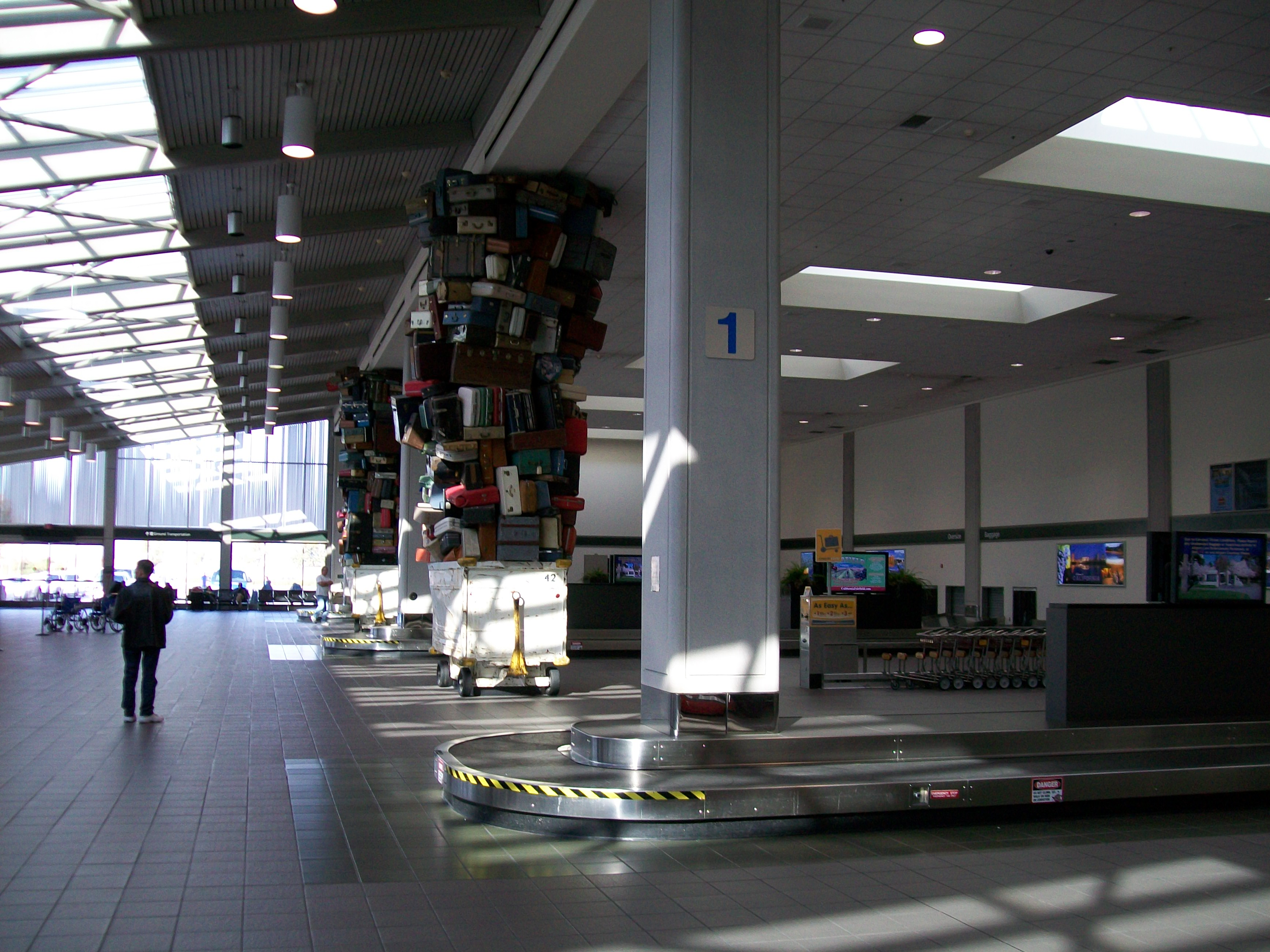 Baggage claim at the Sacramento International Airport